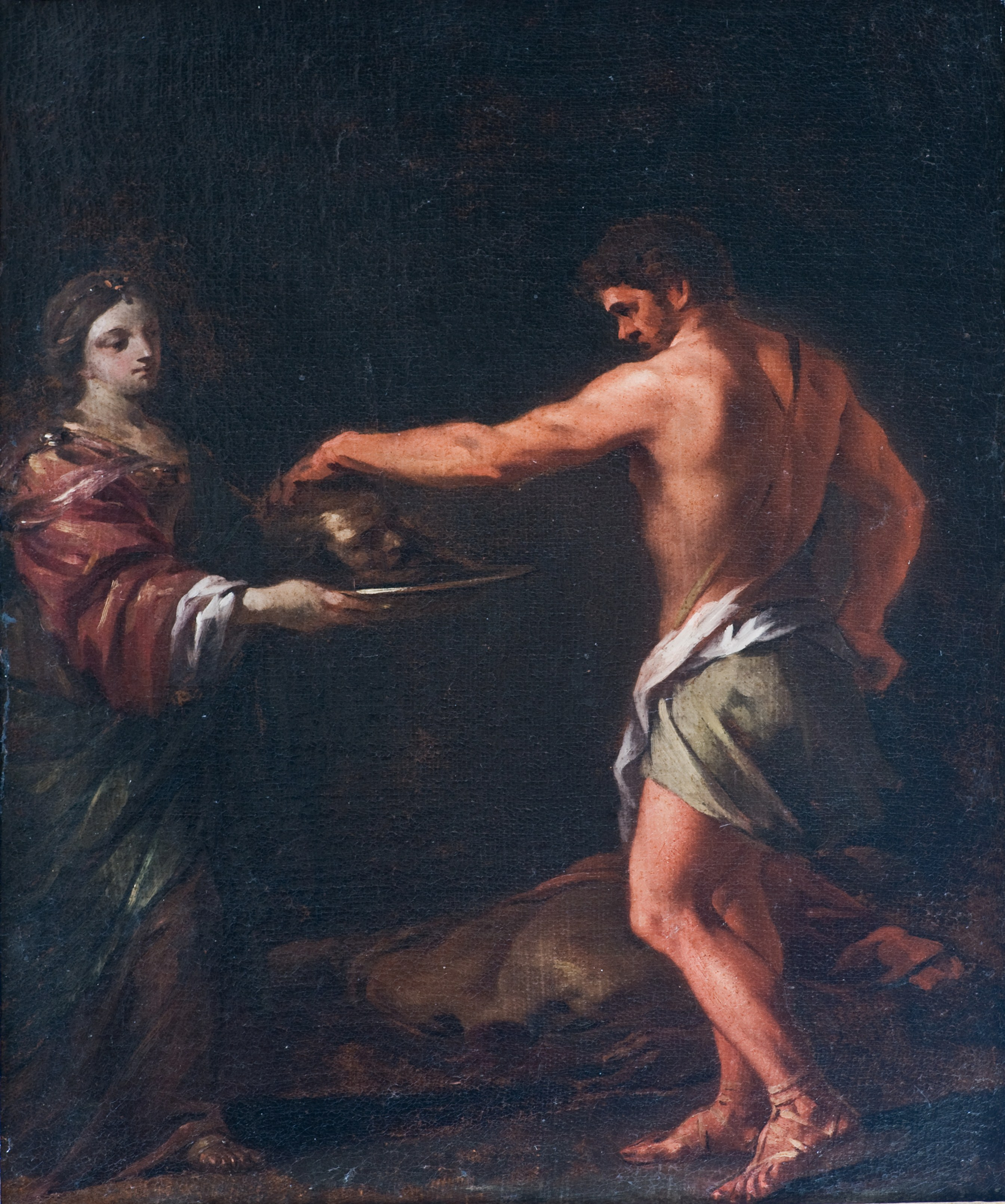 Painting Oil/canvas Sizes 60.5x47 cm (23.8x18.5 in) Date of creation 1640